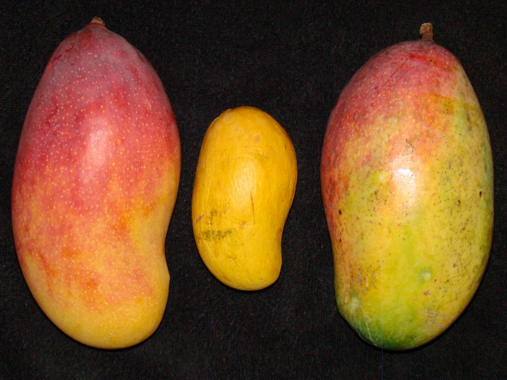 2 ripe Valencia Pride mangoes (Mangifera indica / Anacardiaceae) from the Ghosh Grove, Rockledge, Florida are shown on each side of a store-bought Ataulfo mango, grown in Mexico.